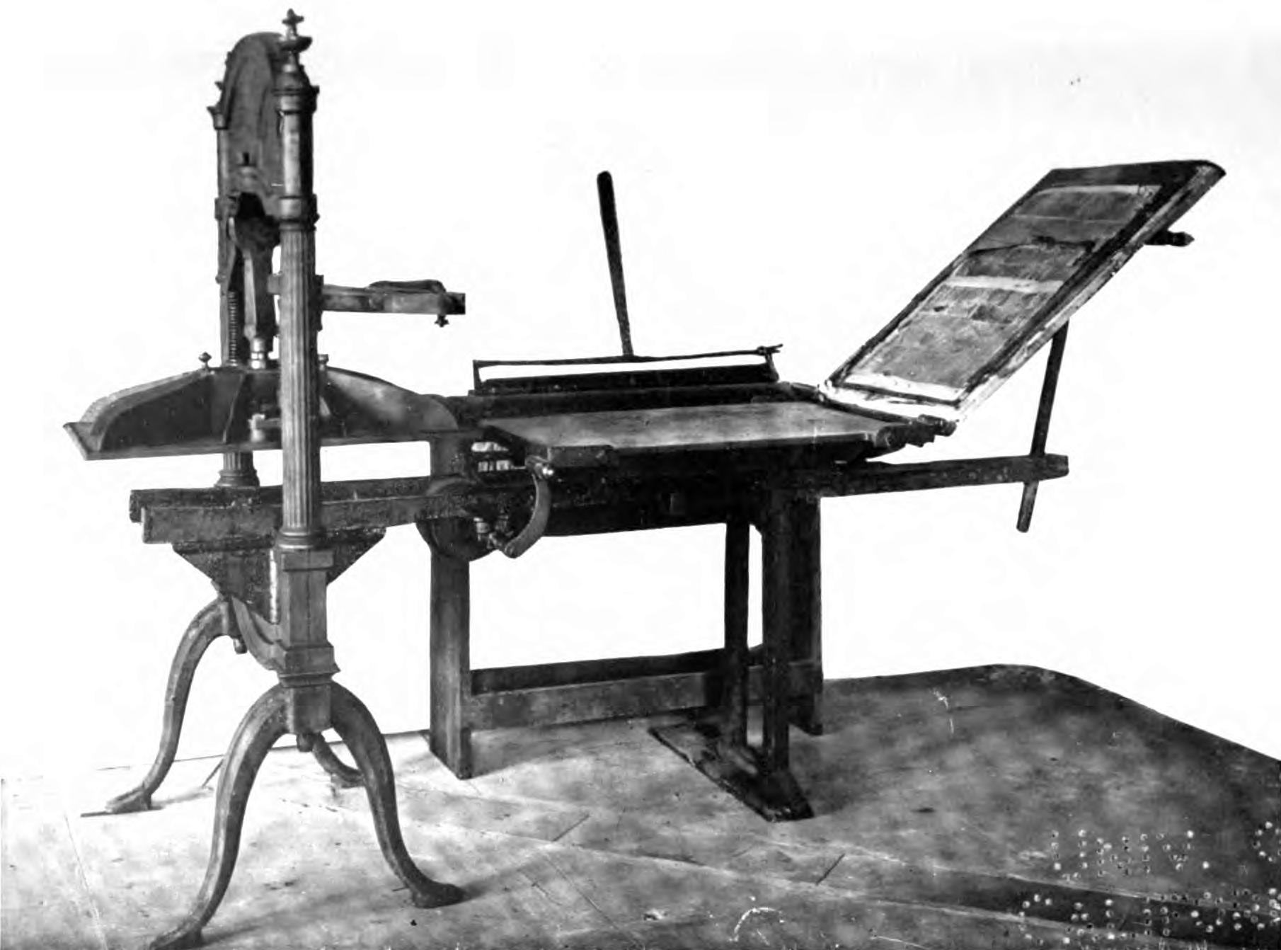 First newspaper press in the [American] west. (Washington hand press). Used on Oregon Spectator, 1846. Preserved in the University Press, University of Oregon, Eugene